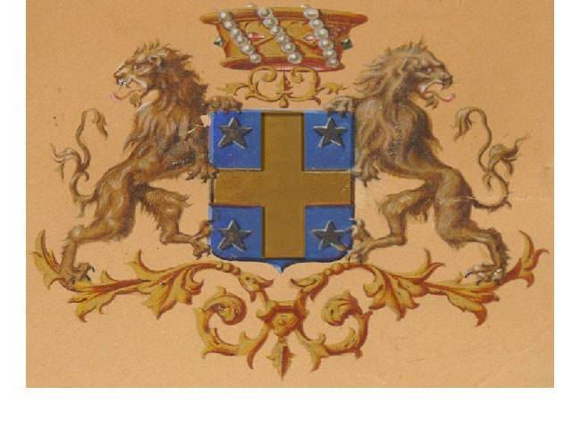 Arms of Count Barlatier de Mas